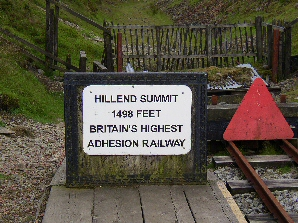 Hillend Summit, Glengonnar Station. The Wanlockhead end of the Leadhills and Wanlockhead Light Railway, terminating at Hillend Summit. At 1498 feet ASL, the highest adhesion railway in Britain. Wanlockhead is Scotland's highest village, lying on the border between Dumfries & Galloway and South Lanarkshire. for more about the railway